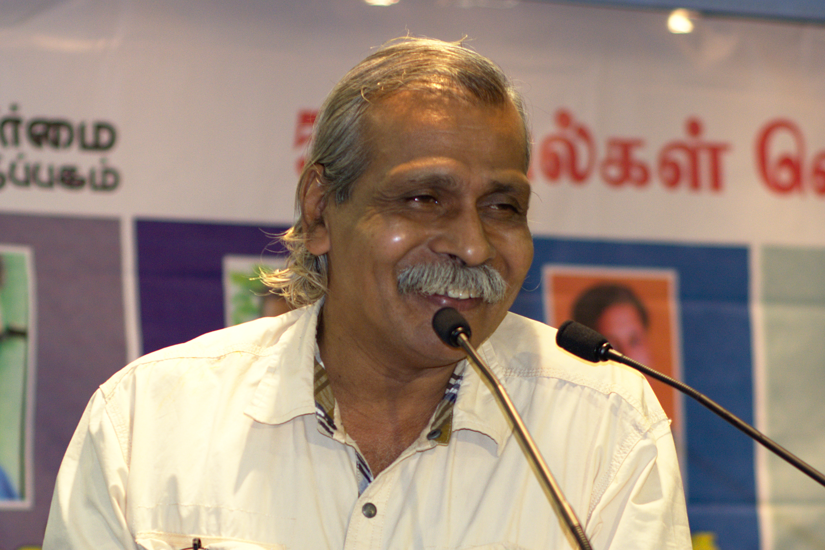 Kalpetta Narayanan